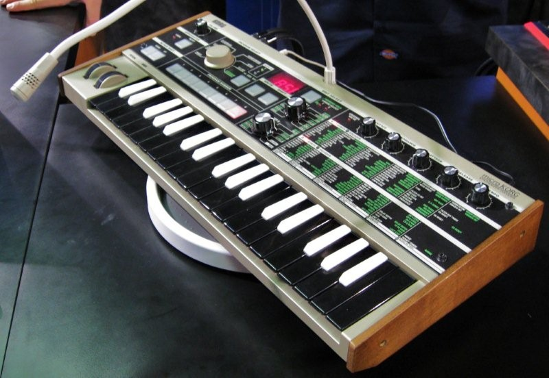 Korg microKORG reverse-color key @ NAMM 2008 Winter